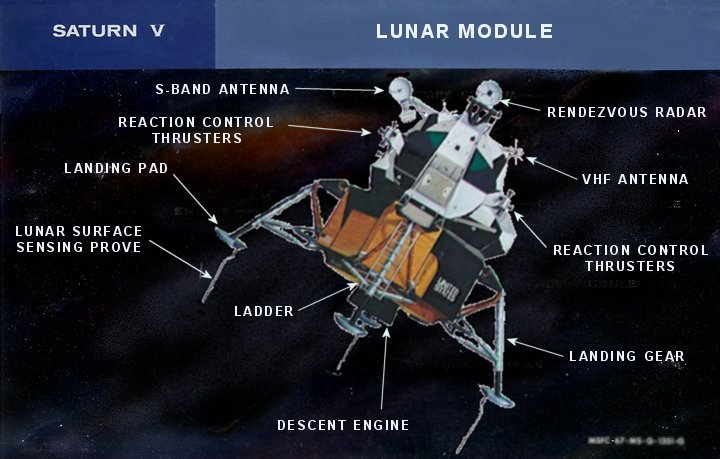 Apollo Lunar Module diagram I created this diagram in Paint Shop Pro from several NASA photos downloaded from the NASA NIX IMAGE SERVER website